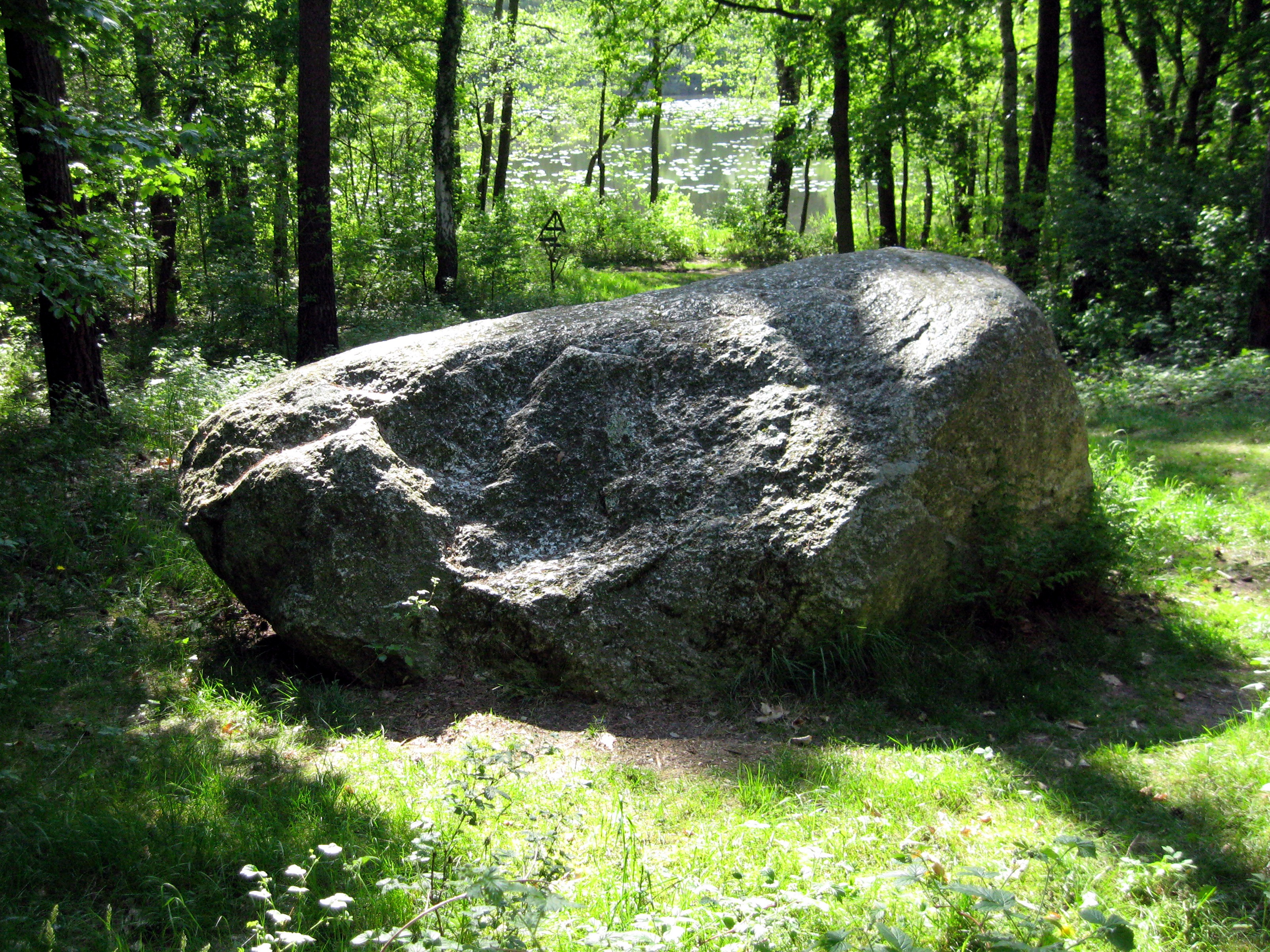 Prenden (Wandlitz) in Brandenburg, Germany